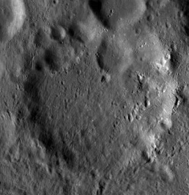 LROC image WAC No. M103209311ME. Calibrated by LROC_WAC_Previewer.